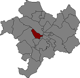 Location of Vilobí del Penedès in Alt Penedès